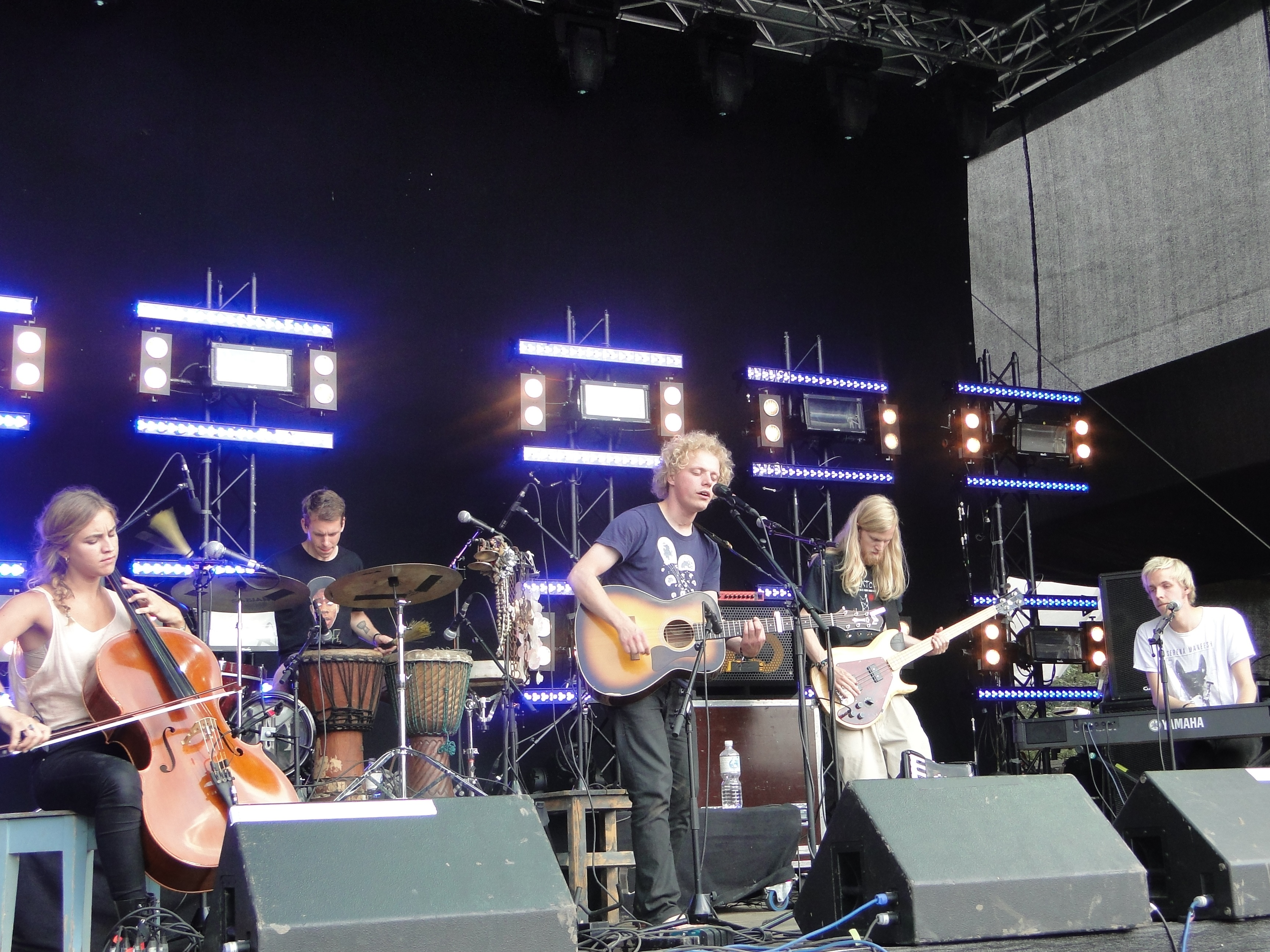 Moddi performing at Dockville festival, Germany, 2011